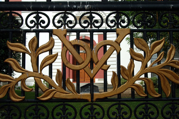 Created by me Licensing Bild:Voclogo.jpg